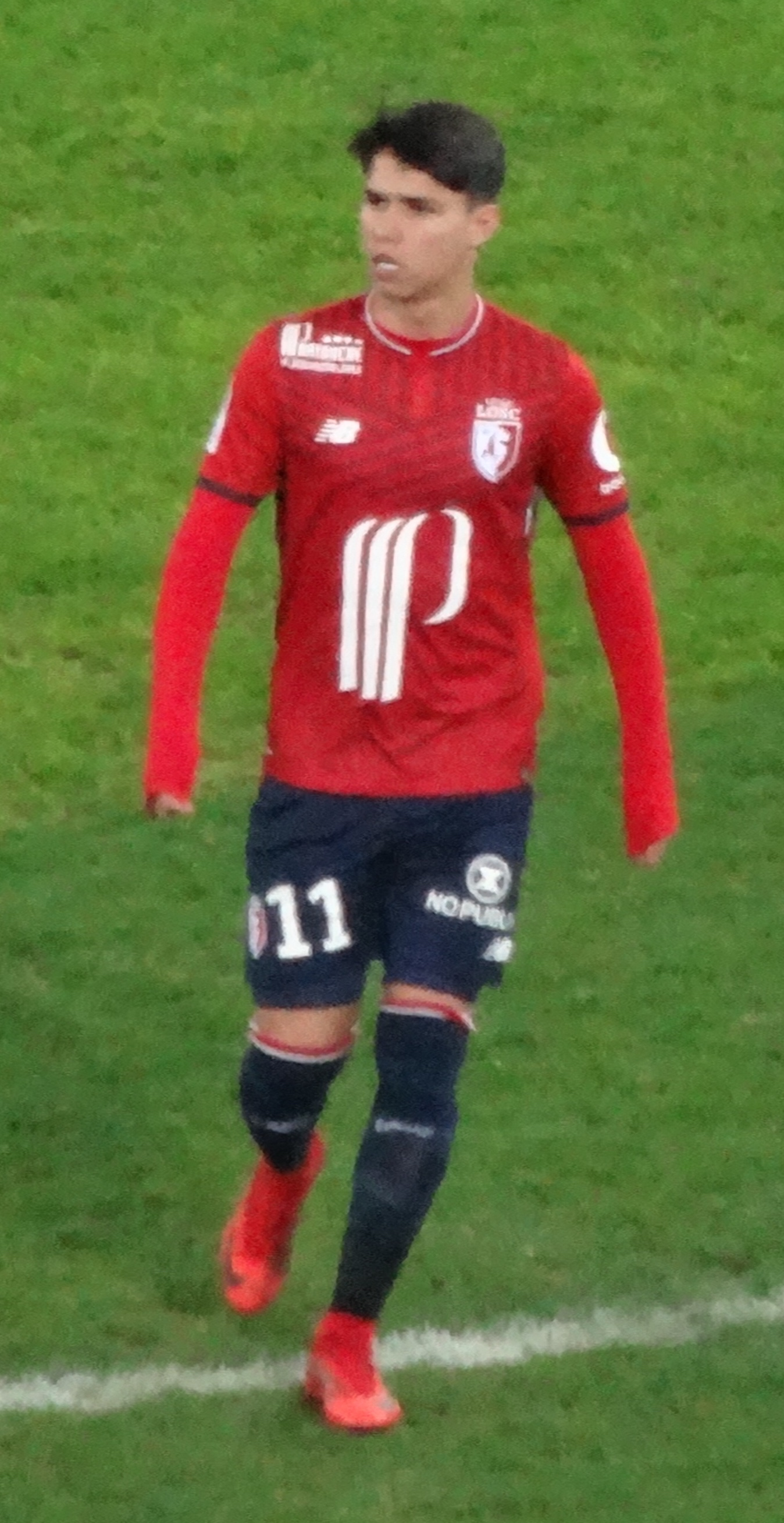 Luiz Araújo (LOSC)